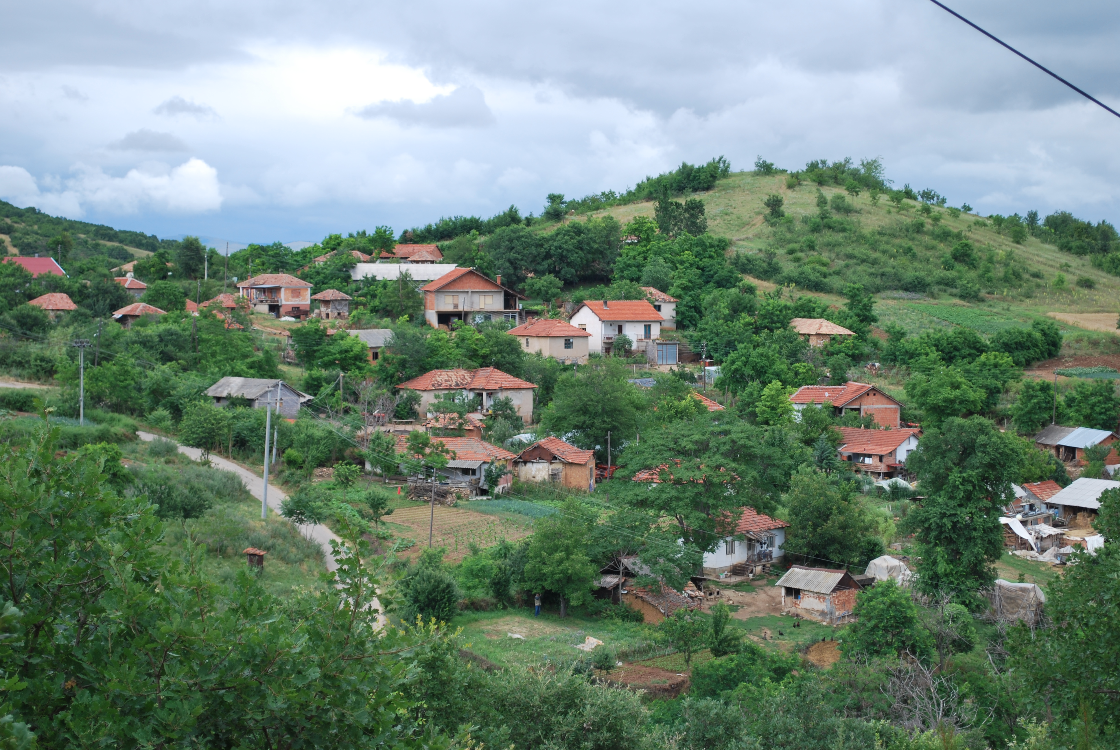 Skačkovce, near Kumanovo, Macedonia